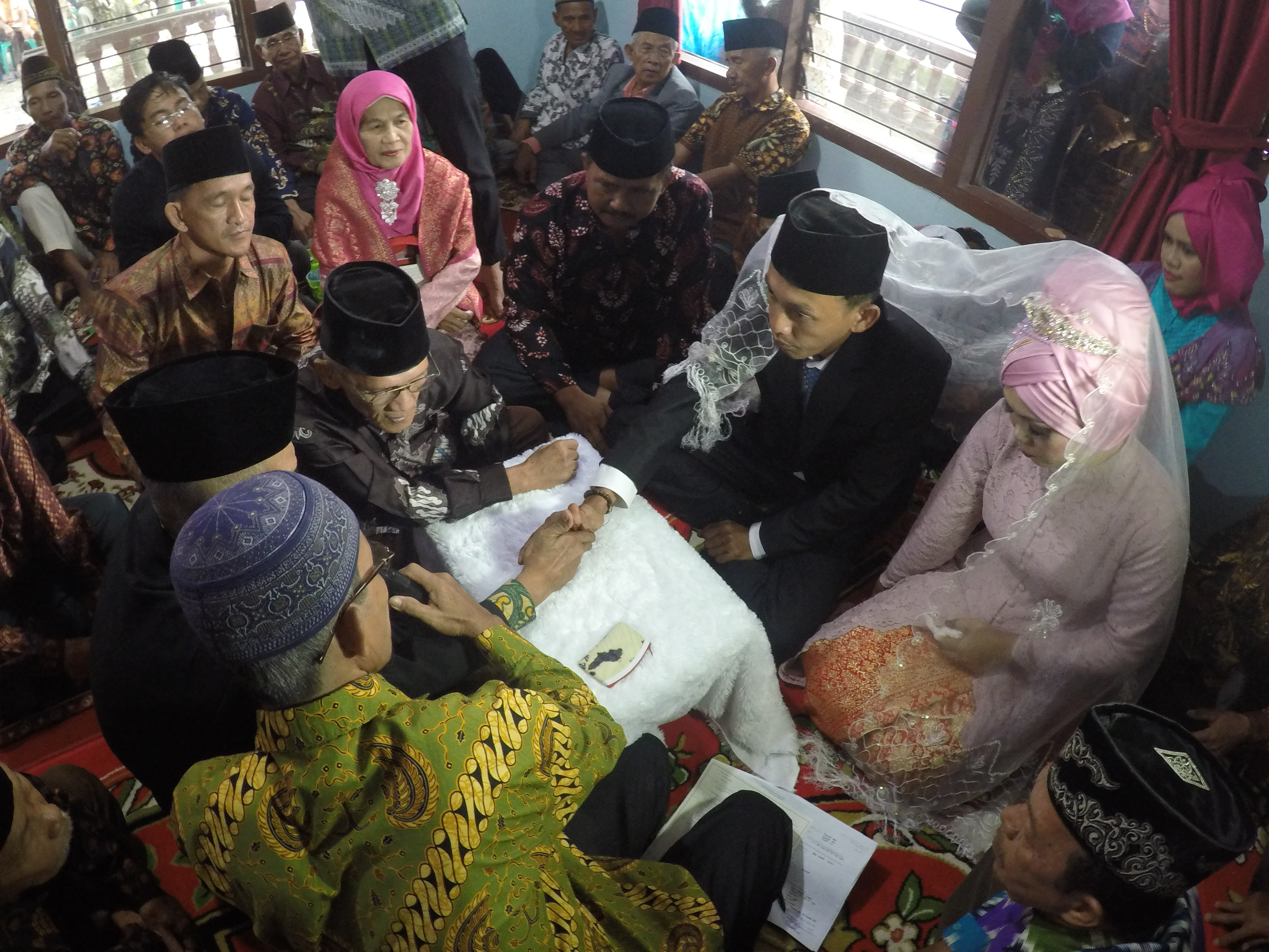 This picture is showing how muslim marriage vow is carried out, the parent of the bride declare that he accept the marriage of his daughter with the dowry gifts from the groom, which the groom would confirm afterward This photo has been taken in the country: Indonesia